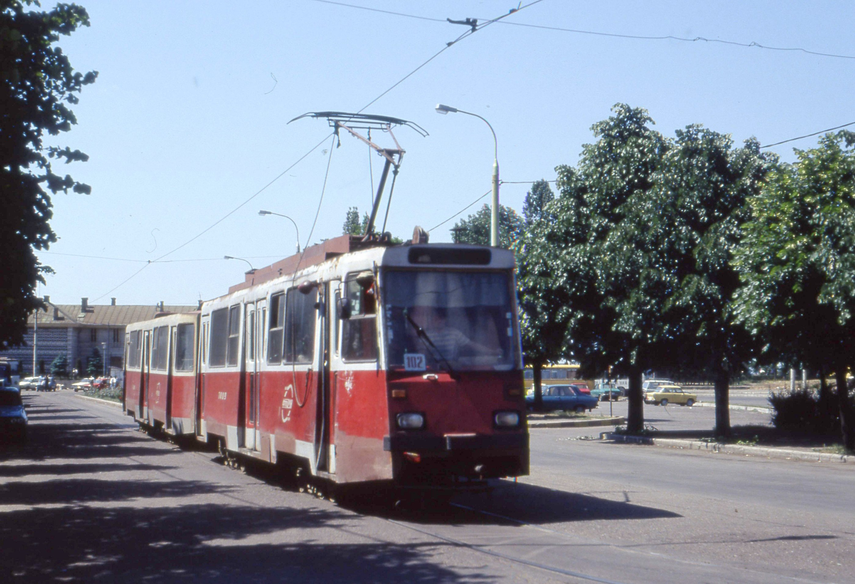 Timiș2 motor car - 7089? - and trailer, Ploiesti west.